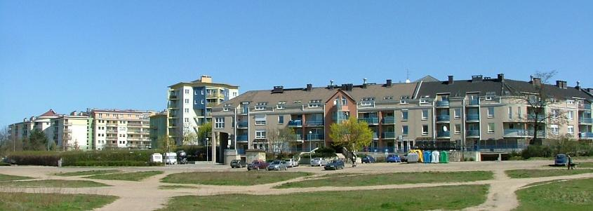 Poznan - Naramowice District - Panorama.